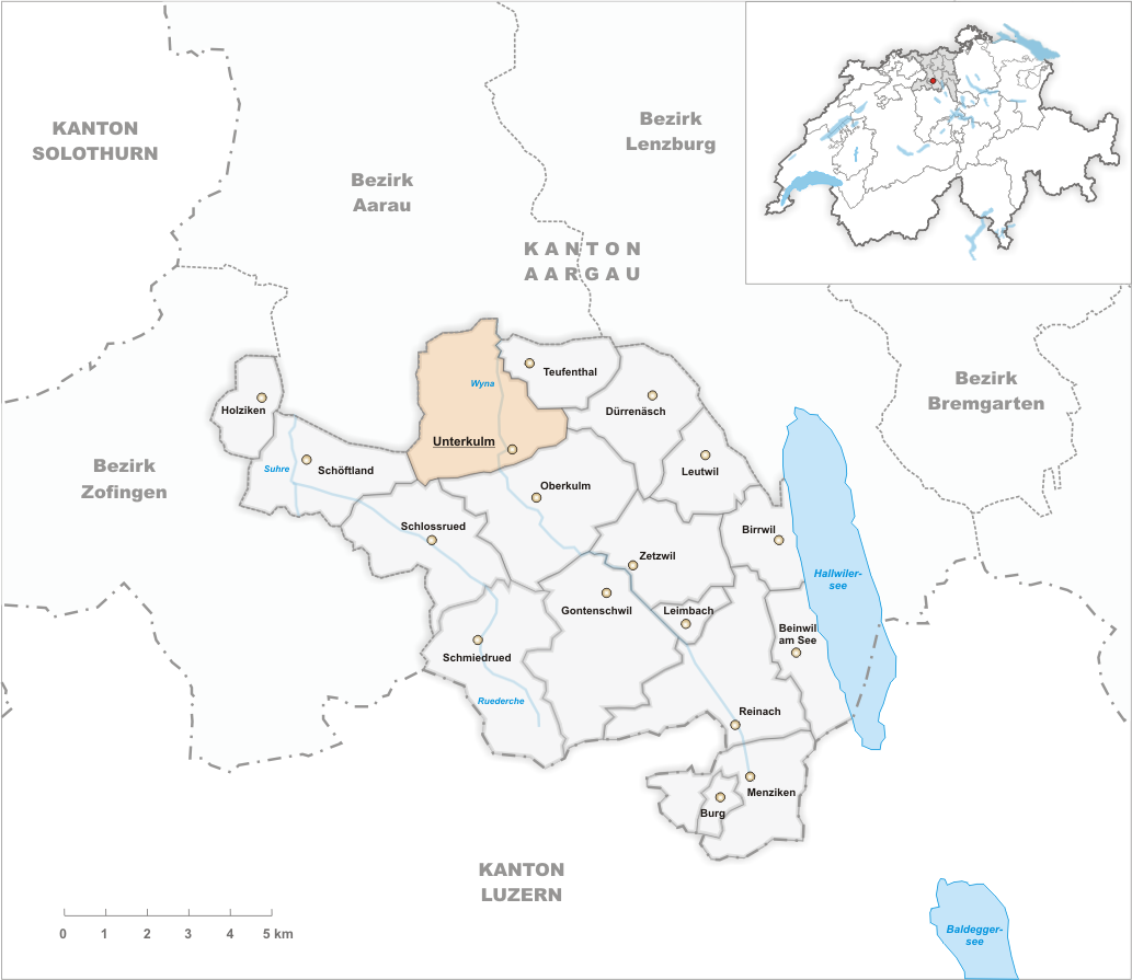 Municipality Unterkulm